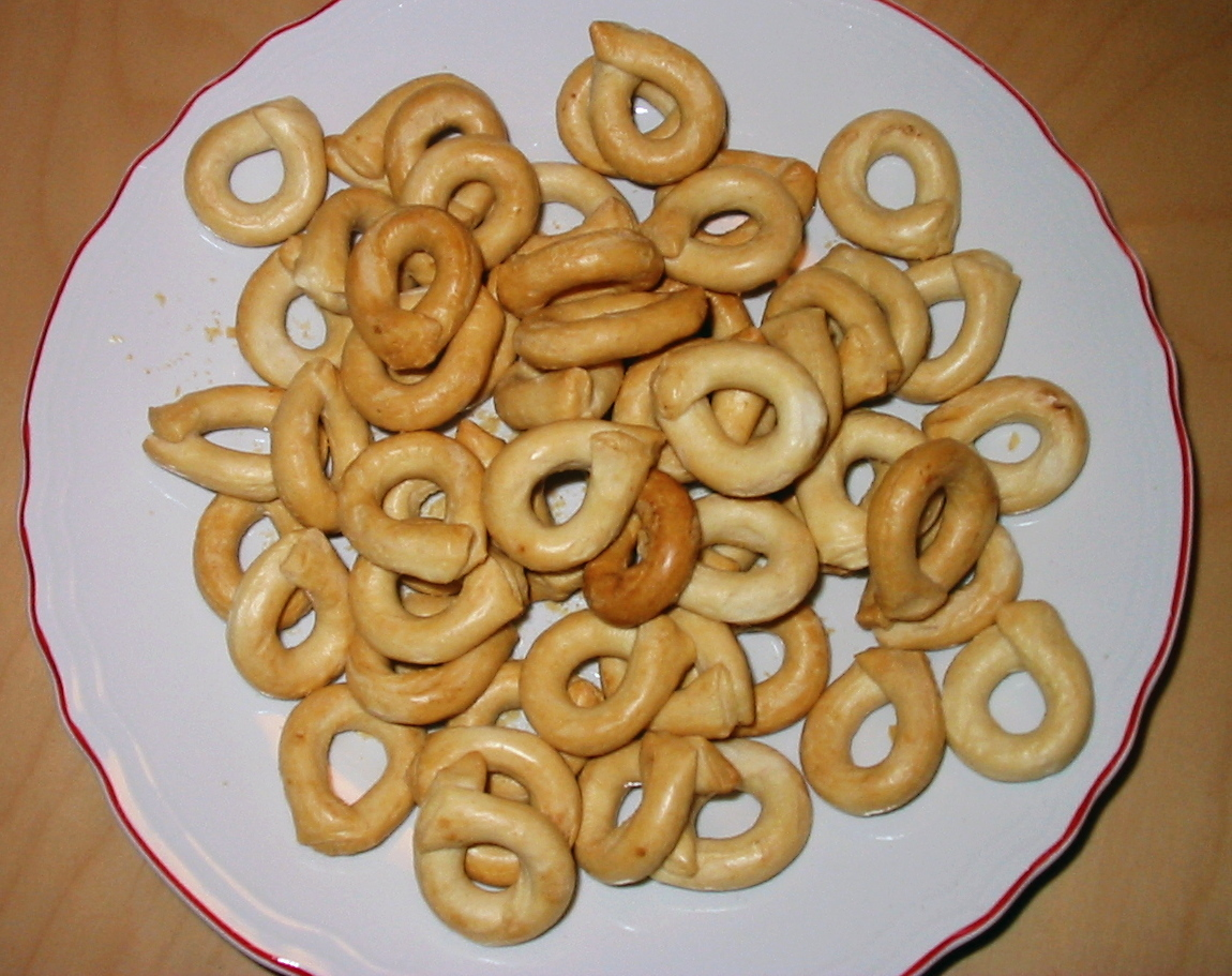 Photo of "Tarallini", a Southern Italy typical food